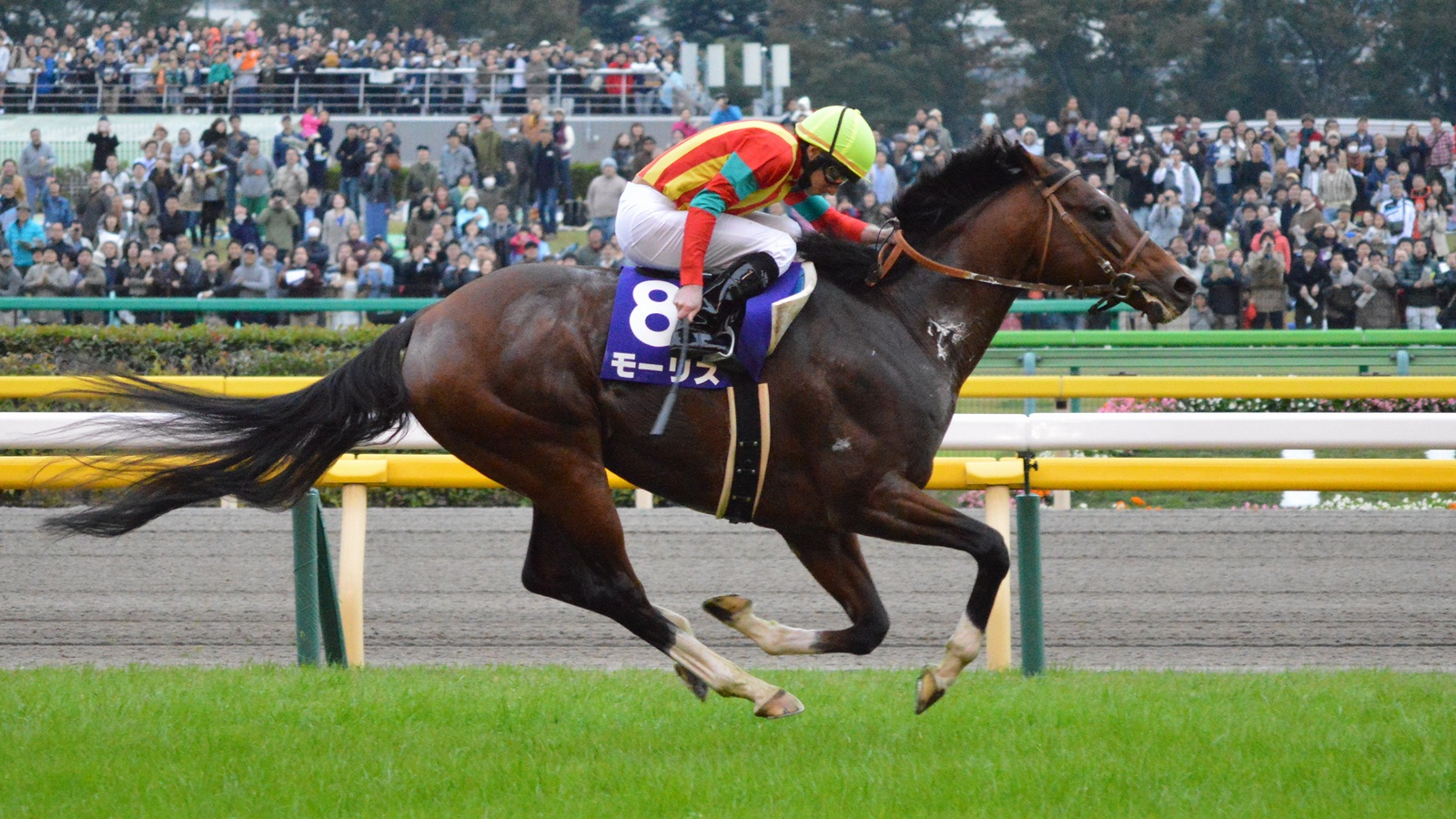 Japanese race horse Maurice at Tokyo racecourse. Tokyo (JPN) 30 Oct 2016Tenno Sho (Autumn) (Grade 1) (3yo+) (Turf) 1m2f Firm RankHorse NameOddsAgeWgtTrainerJockey1stMaurice (JPN)26/10FH59-2Ryan MooreNoriyuki Hori2ndReal steel (JPN)12/1C49-2Mirco DemuroYoshito YahagiOthers are omitted. (17 horses entered in a race.)